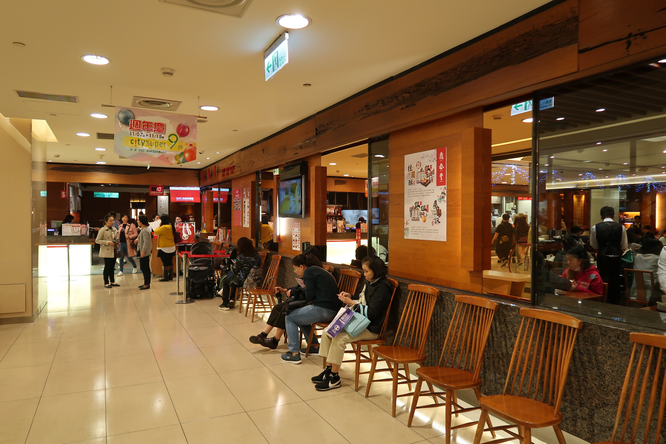 Ding Tai Fung in Pacific Sogo ZhongXiao Store